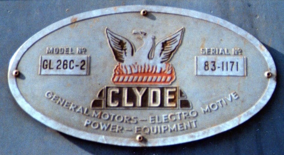 Builders plate on QR loco no. 2207